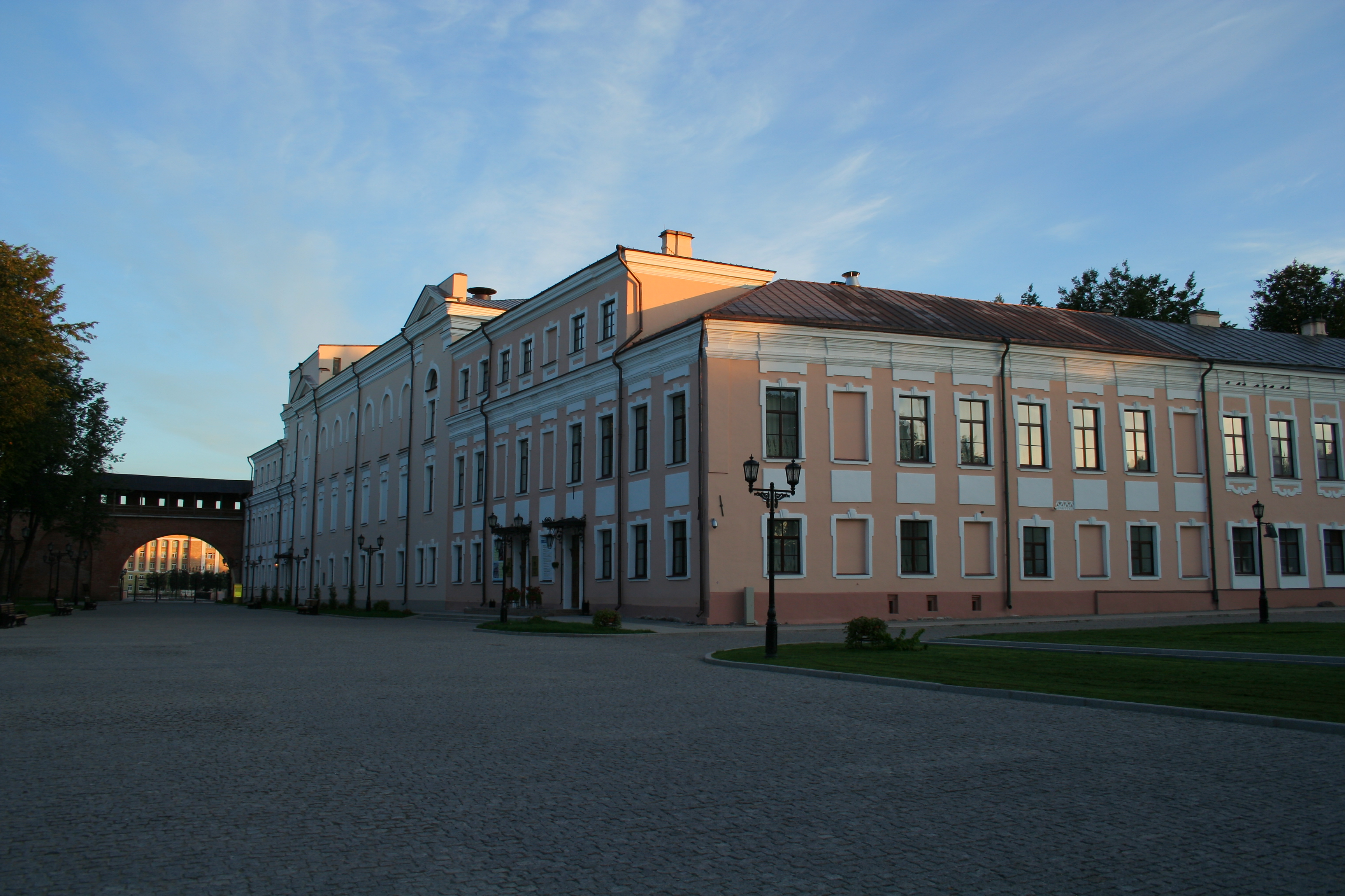 The Kremlin in Velikiy Novgorod, Russia. Concert hall.